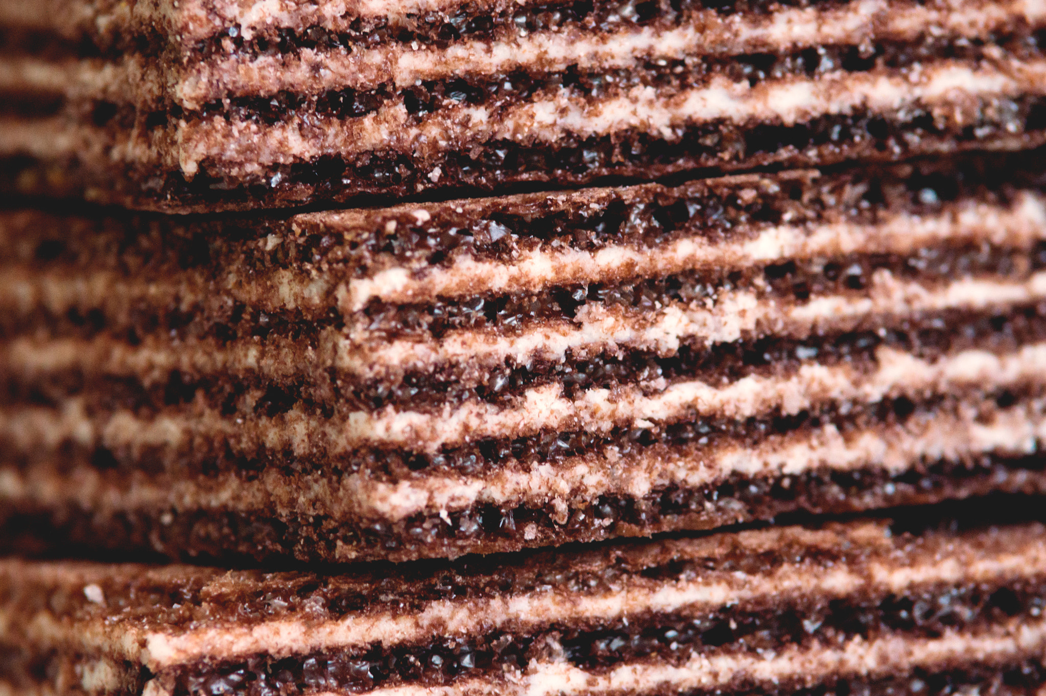 500px provided description: Chocolate Wafer [#macro ,#food ,#chocolate ,#cooking ,#wafe]